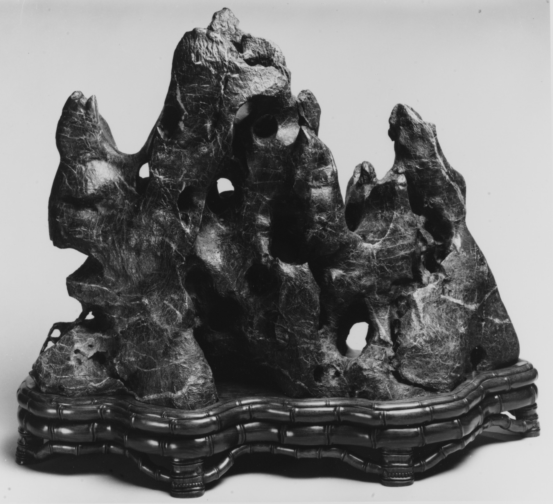 China; Scholar's rock; Sculpture